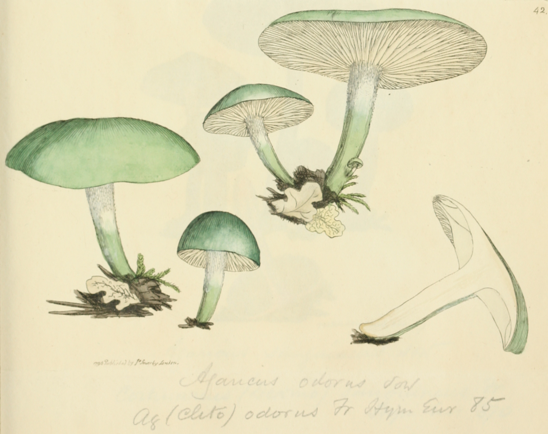 This is a plate from James Sowerby's Coloured Figures of English Fungi or Mushrooms.